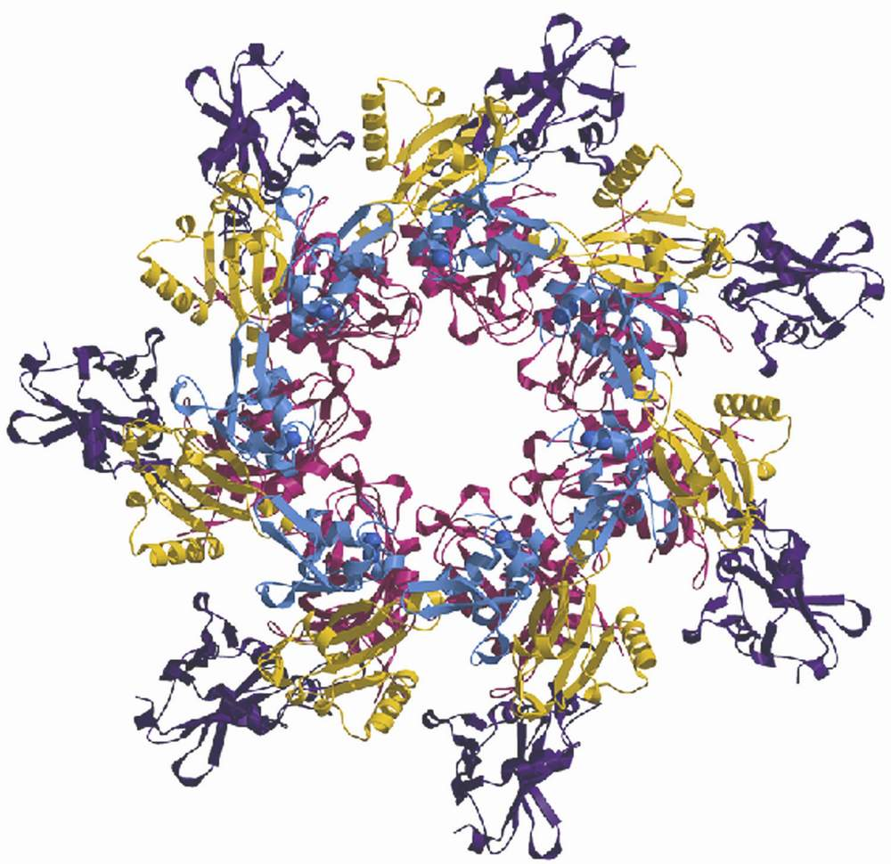 Heptamer structure of Bacillus anthracis' protective antigen (PA) protein, a key mediator of anthrax molecular pathogenesis.